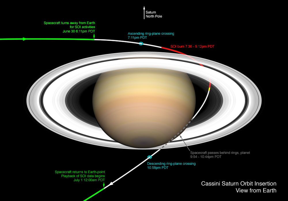 Orginal caption released with the picture: Saturn Orbit Insertion This graphic shows the trajectory of the Cassini-Huygens spacecraft from the perspective of Earth as it enters orbit around Saturn. All times in listed are Pacific Daylight Time. Highlights of orbit insertion: 6:10 PM.: Spacecraft turns so its high-gain antenna can shield the craft from particles as it crosses Saturn's ring plane. 7:36 PM: Engine begins burn, which will slow spacecraft down so it can be captured by Saturn's gravity. Burn lasts approximately 96 minutes. 8:54 PM: Cassini captured in Saturn orbit. 9:03 PM: Closest approach to Saturn of entire mission: 19,980 kilometers (12,400 miles) from Saturn's cloud tops. 9:12 -9:22 PM: Engine burn ends. 9:35 PM: Spacecraft begins to take pictures of Saturn's rings.